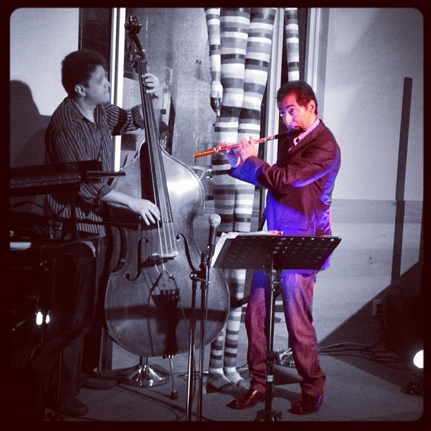 Nestor Torres at Wynwood Kitchen